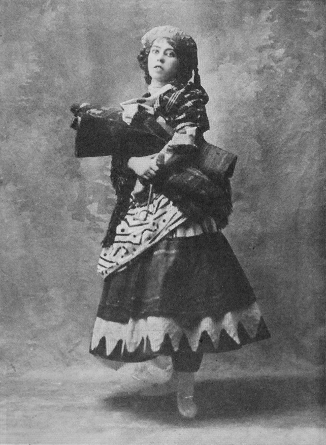 Bronislava Nijinska in Petrouchka. From a playbill, Théâtre des Champs-Elysées. Saison Russe. 23 Mai 1913. Ballets Russes Programs, 1907-1929 (MS Thr 965 [7). Harvard Theatre Collection, Houghton Library, Harvard University